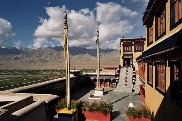 Tikse monastery, Ladakh (India)